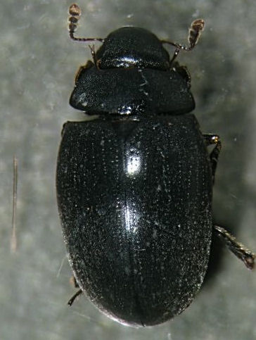 adult Nosodendron sp. from New Zealand